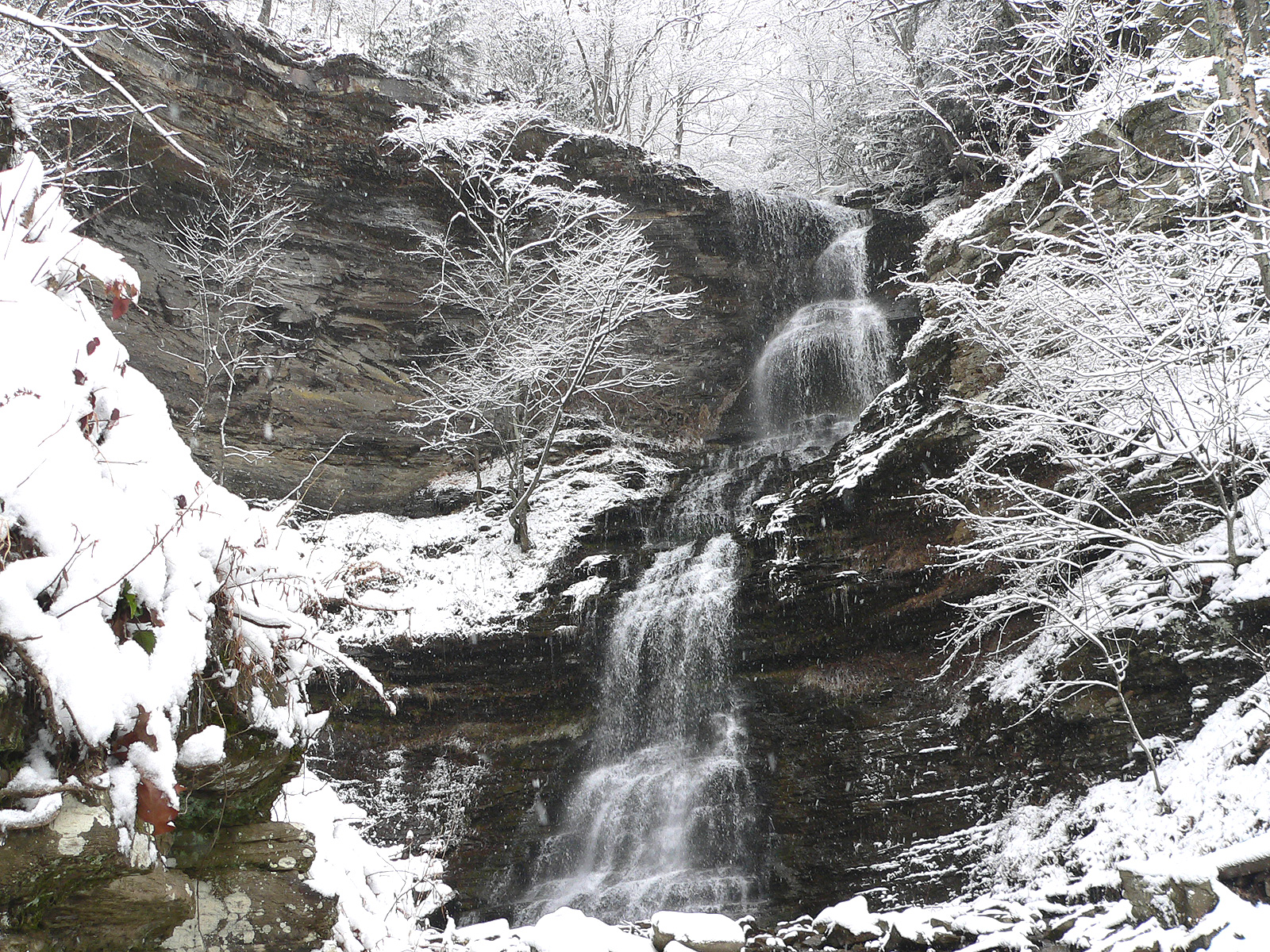 A winter shot of Cathedral Falls, just outside of Gauley Bridge in Fayette County, WV.Photo taken with a Panasonic Lumix DMC-FZ20.